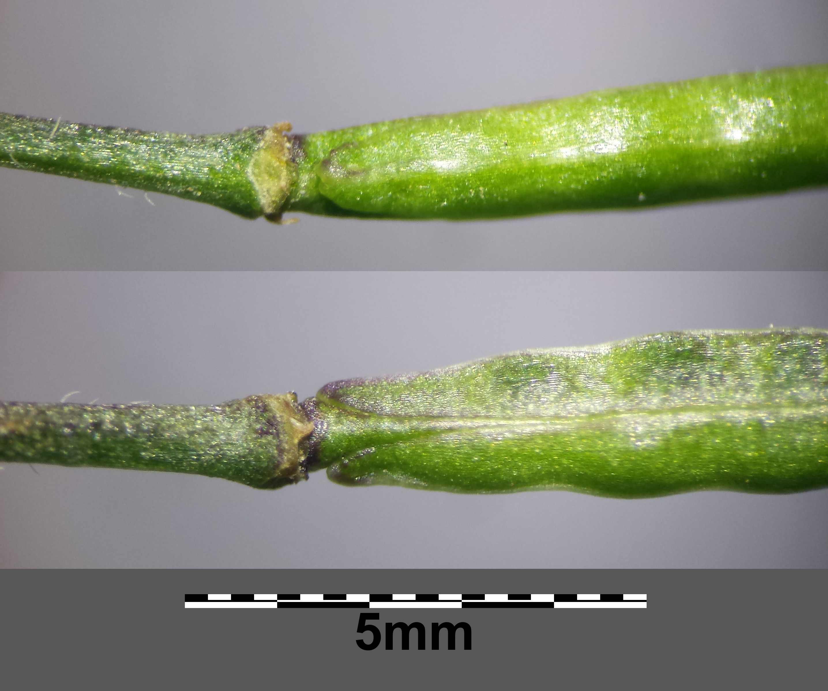 Not stipitate silique Taxonym: Erucastrum gallicum ss Fischer et al. EfÖLS 2008 ISBN 978-3-85474-187-9 Location: Lange Leiten-Zeiselberg near Herzogbirbaum, district Korneuburg, Lower Austria - ca. 300 m a.s.l. Habitat: border of a field